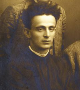 Itzik Manger, Czernowitz Conference anniversary 1928. Photograph by Jacob Brüll. (YIVO)